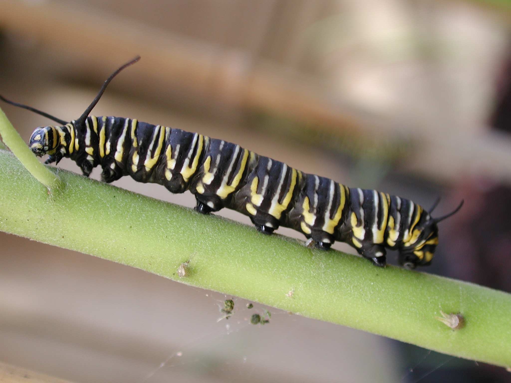 Monarch caterpillar on a swan plant branchlet.